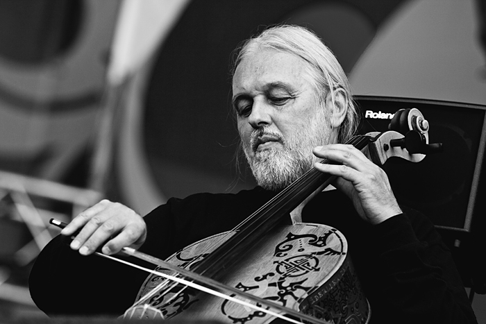 Vsevolod (Seva) Gakkel